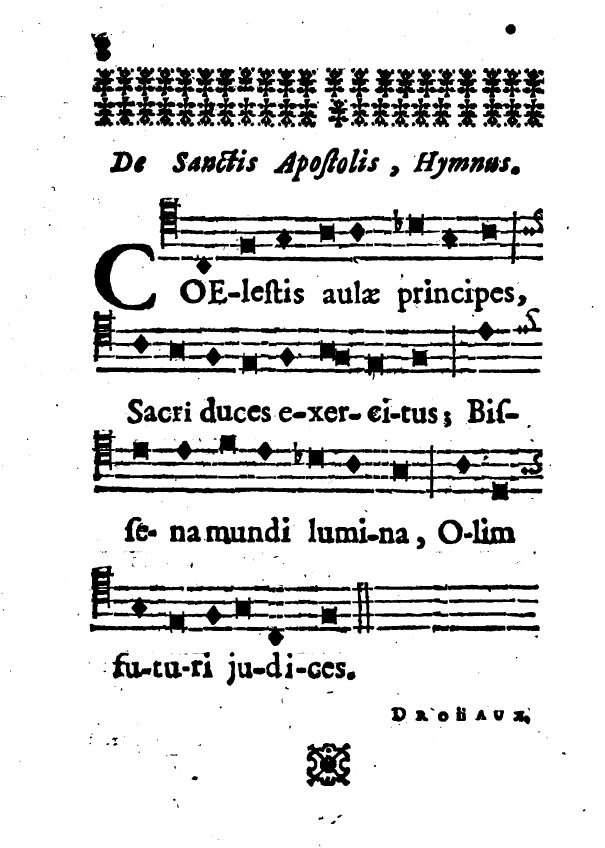 Hymn composed by Etienne Drouaux on a neo-latin poem by Jean Santeul, 1698.